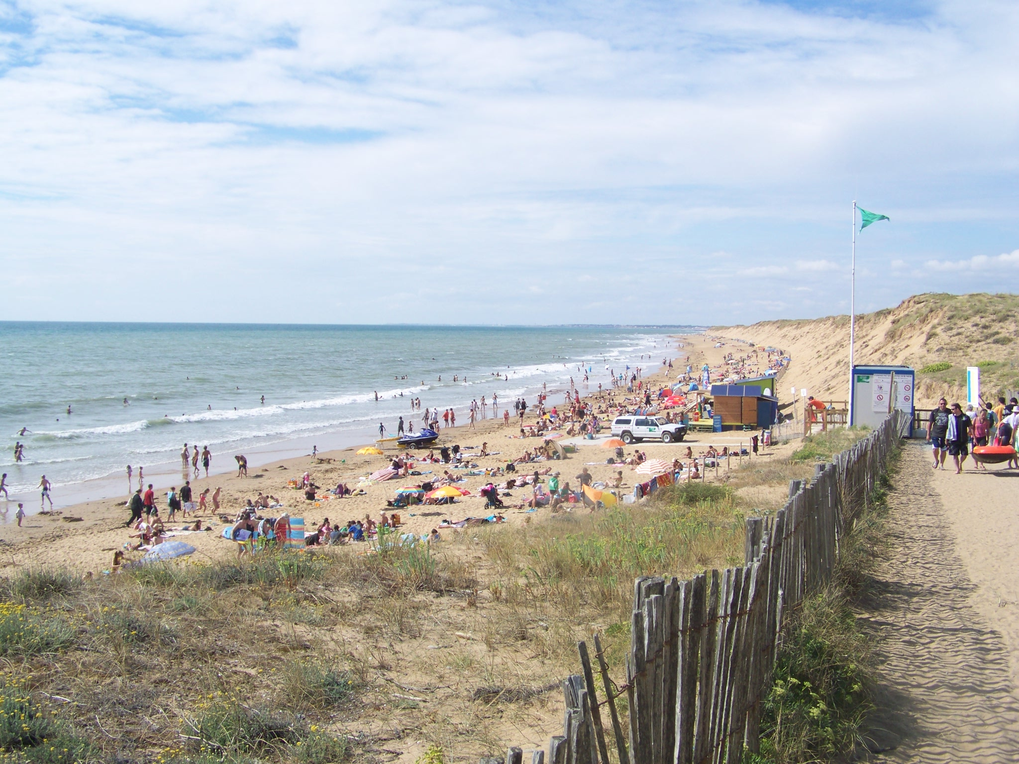 Sight on Sauveterre beach, at Olonne-sur-Mer in Vendée, France.